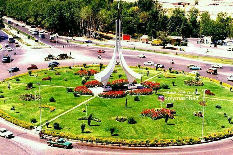 Monument of Azadi Square - Mashhad Yaghoub Daneshdoust